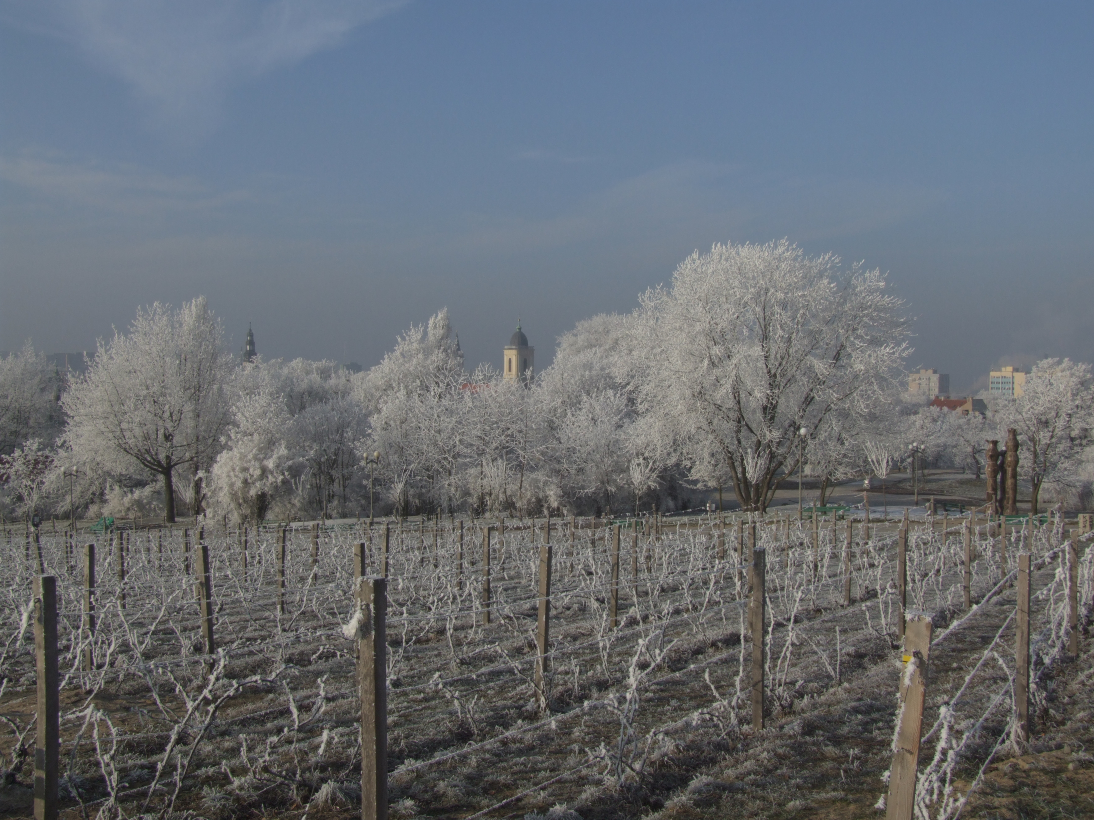 a view on Zielona Góra from a vineyard hill